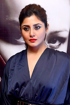 Rimi Sen walks the ramp for Rocky S at the IBFW on day 2 in Goa